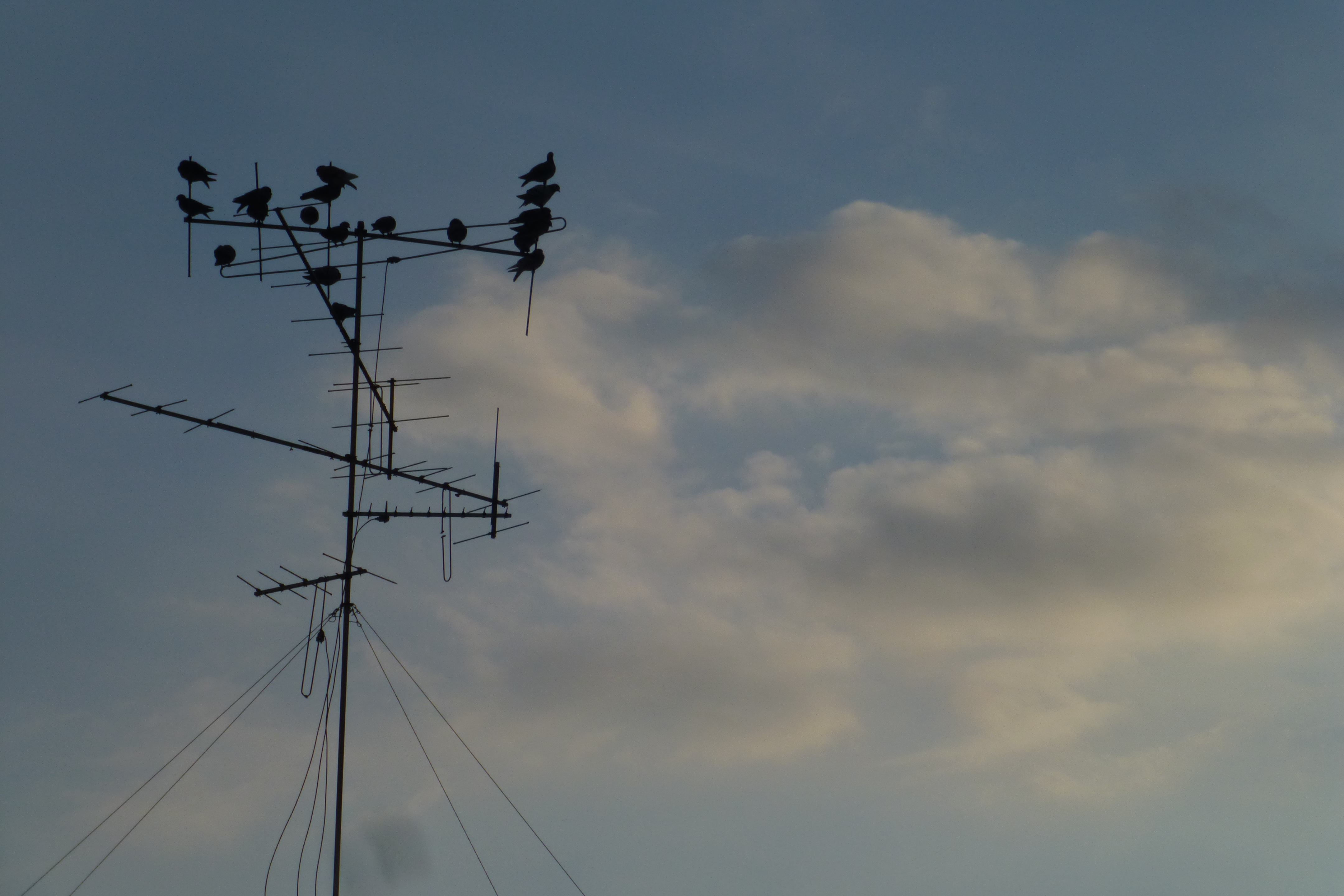 Animals of Israel